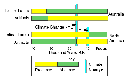 Pleistocene extinction.